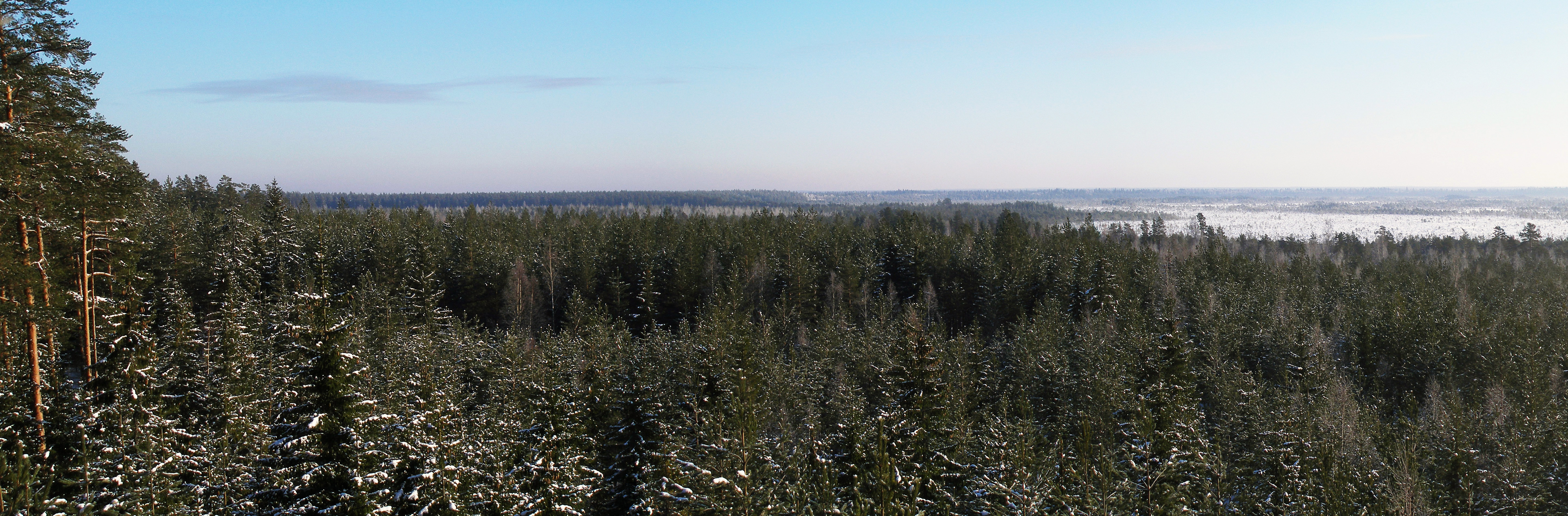 Stitched panorama from Põhja-Kõrvemaa Nature Reserve, Estonia. Taken near Järvi lakes, view to the east towards the forests and Kõnnu Suursoo bog.